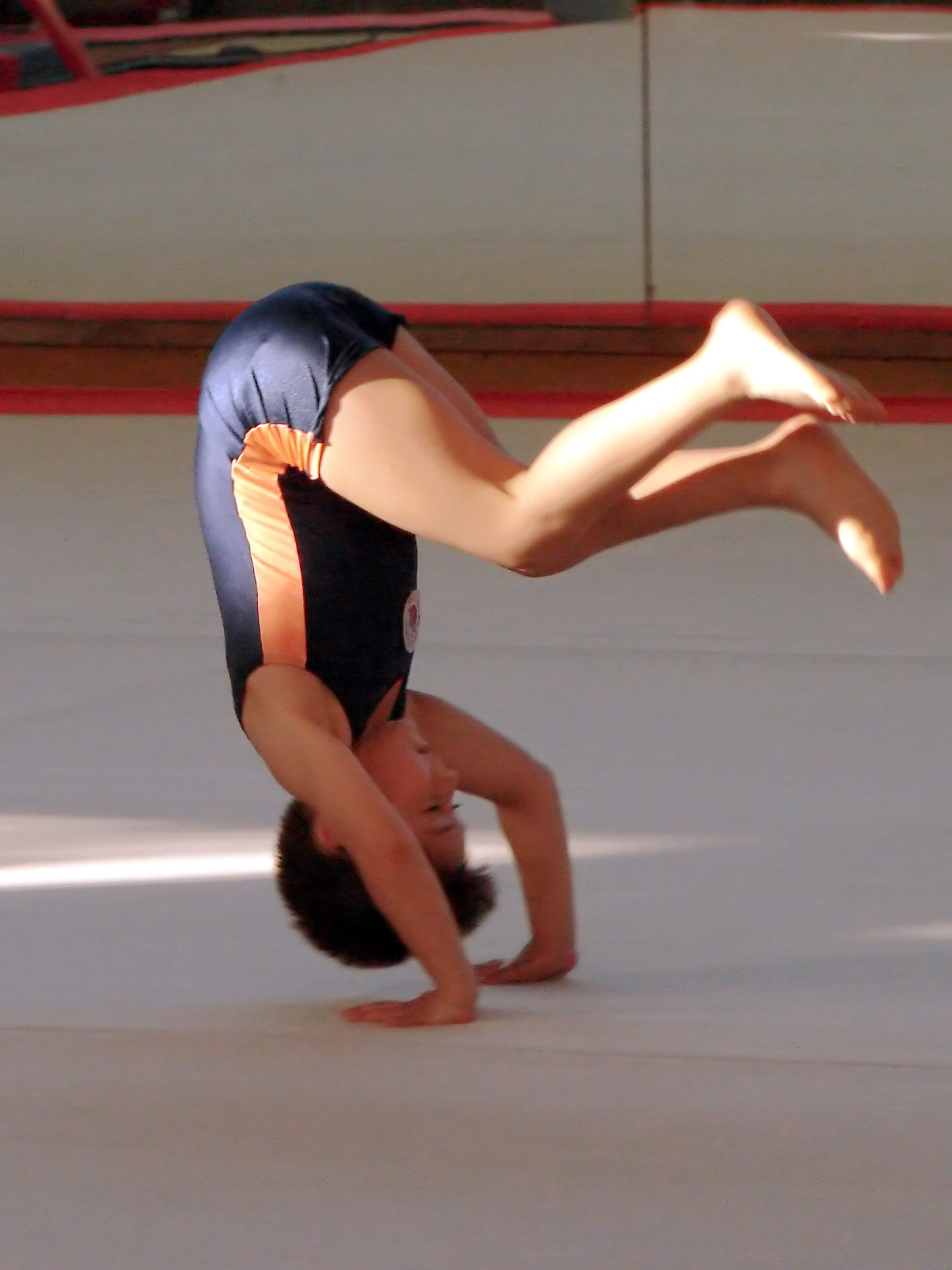 Gymnastics